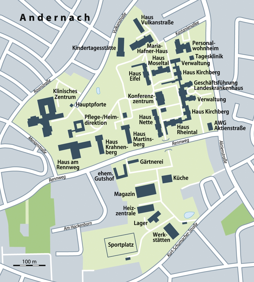 Map of the Rhein-Mosel-Fachklinik